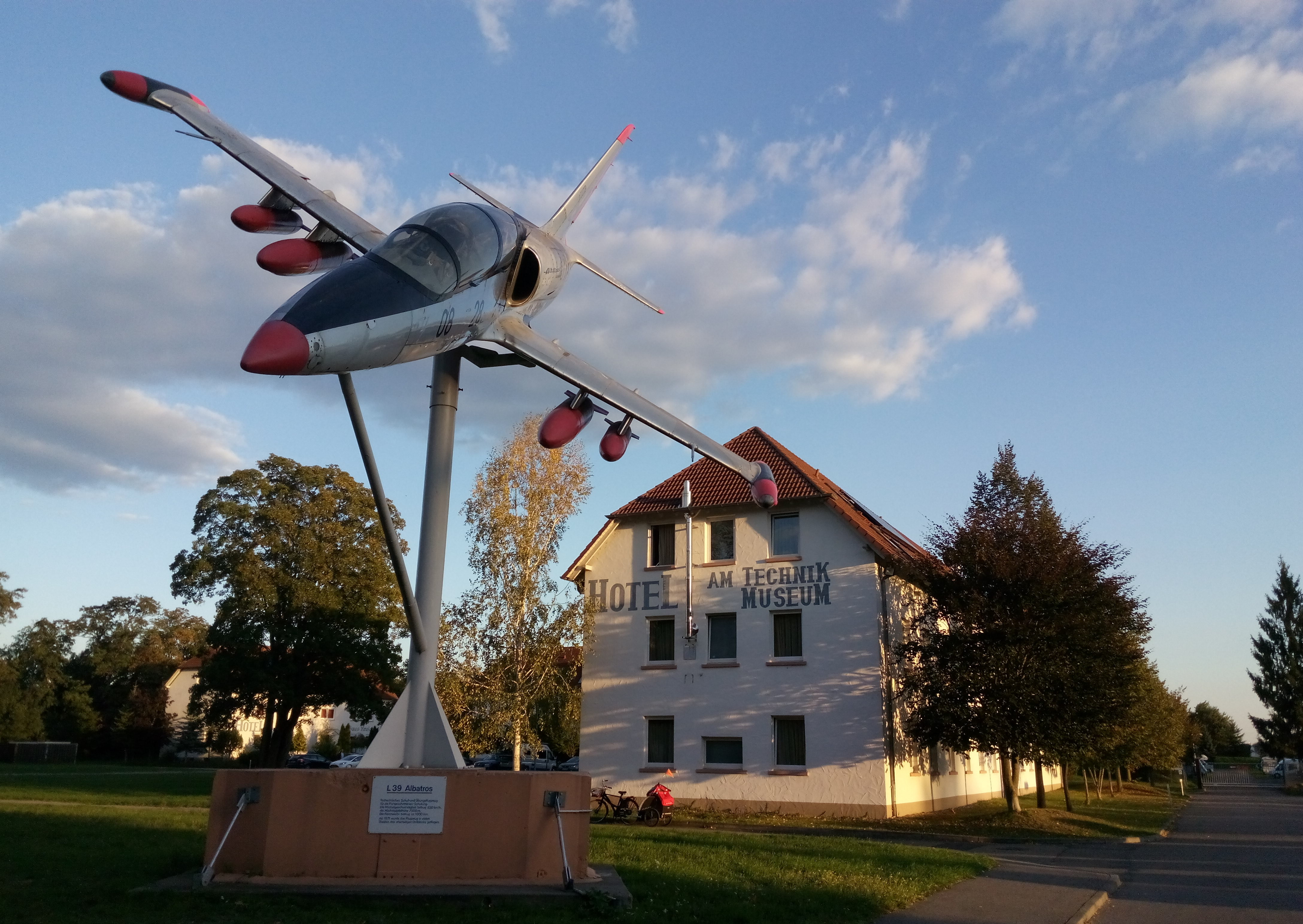 An Aero L-39ZO (Albatros) at the Museum Technik of Speyer, in front of the museum's hotel